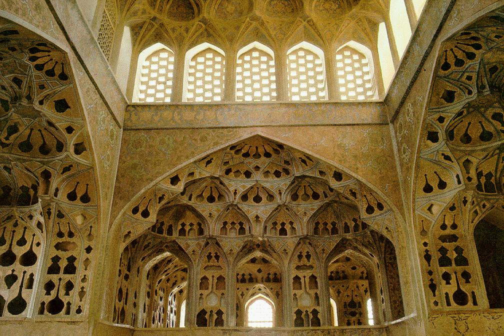 Iran_Isfahan_Ali.Qapu_Music_Room (17th century)